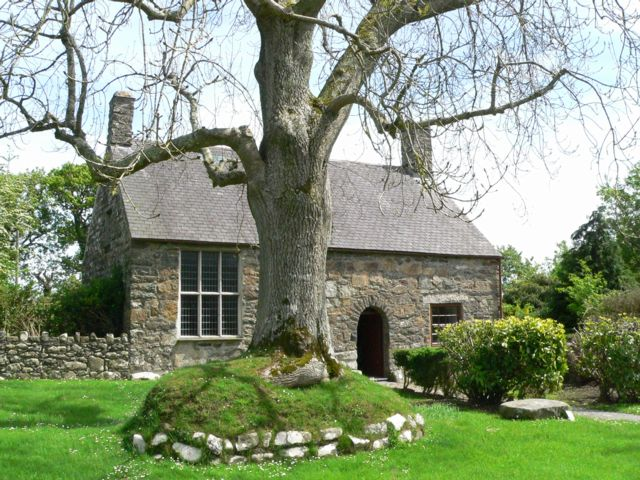 Penarth Fawr, near Chwilog, Pwllheli. The medieval hall and passage house known as Penarth Fawr, near Chwilog, Pwllheli on the Llŷn Peninsula. This house is in the care of Cadw.